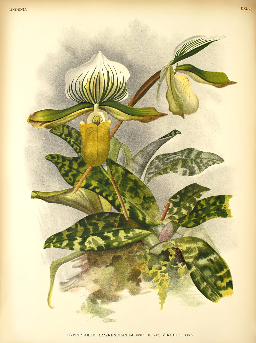 Lawrence's Paphiopedilum var. viride